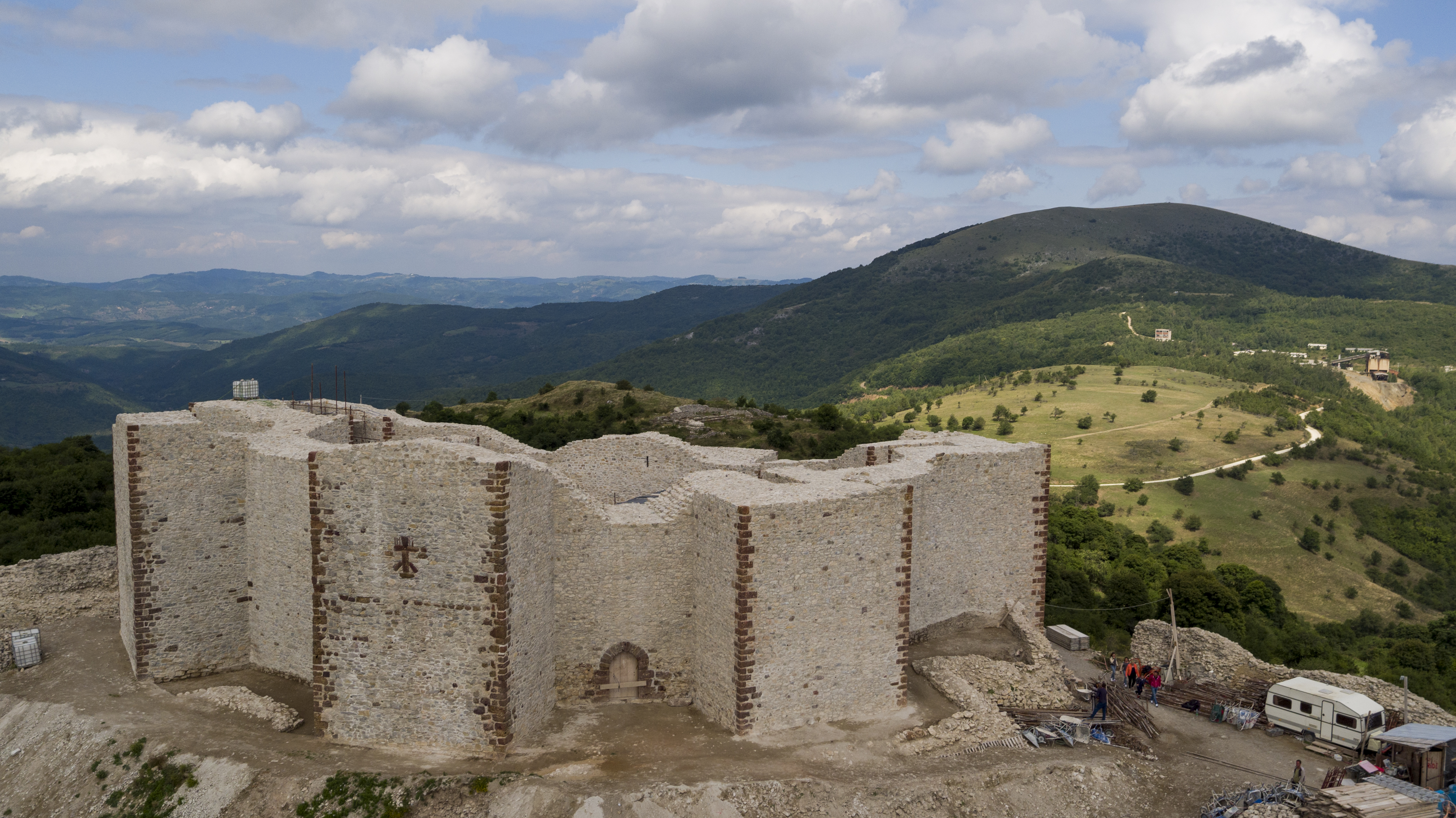 Novo Brdo CastleShqip: Qyteti Mesjetar i Novobërdës